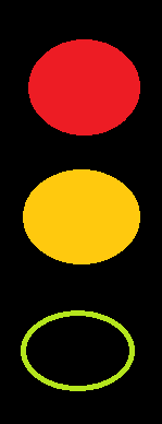 uk traficlight meaning get ready to go